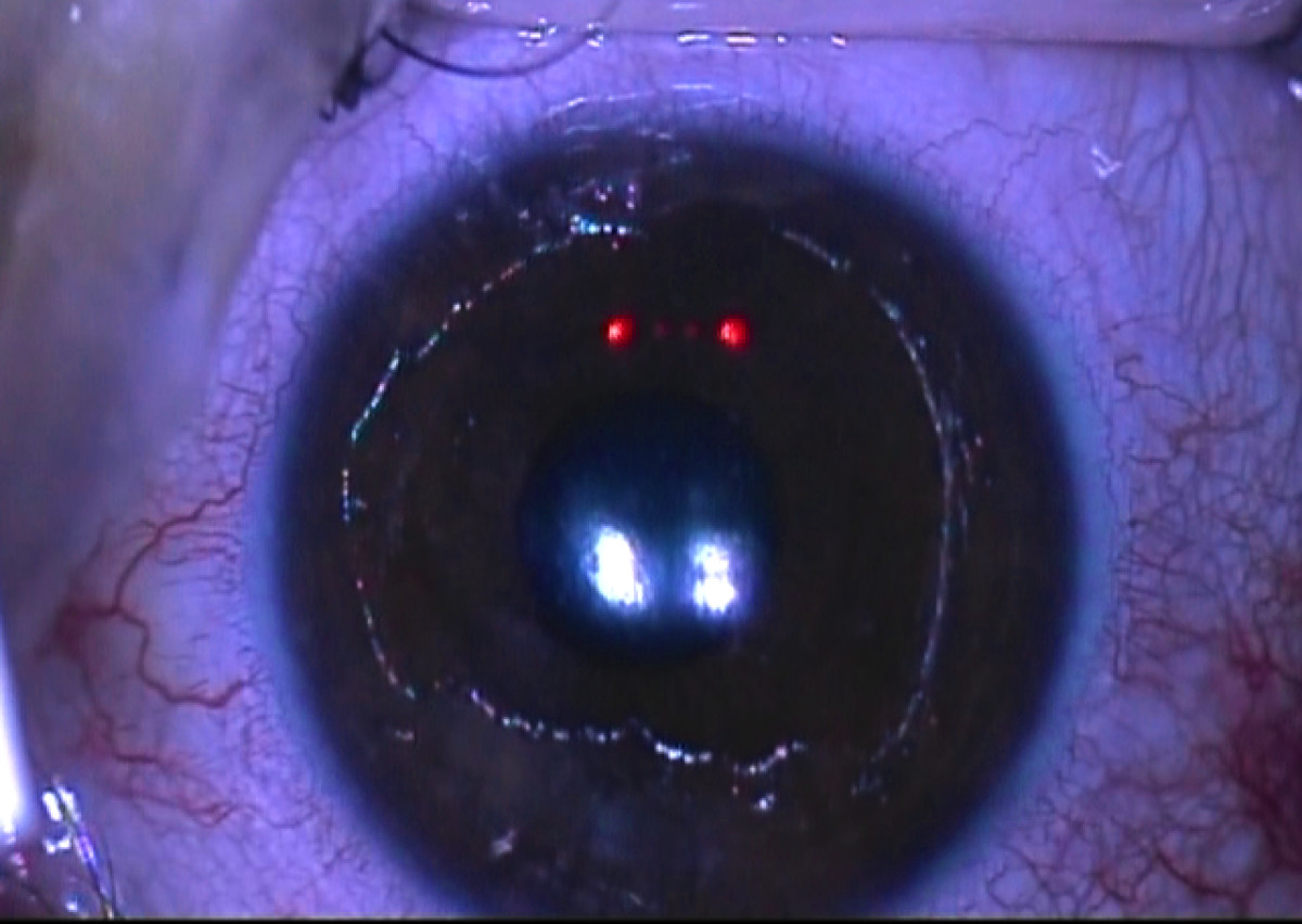 Intraoperative pachymetric-guided corneal epithelium removal during corneal collagen cross linking in patient with post-LASIK corneal ectasia and inferior corneal thinning. Kymionis et al. BMC Ophthalmology 2009 9:10